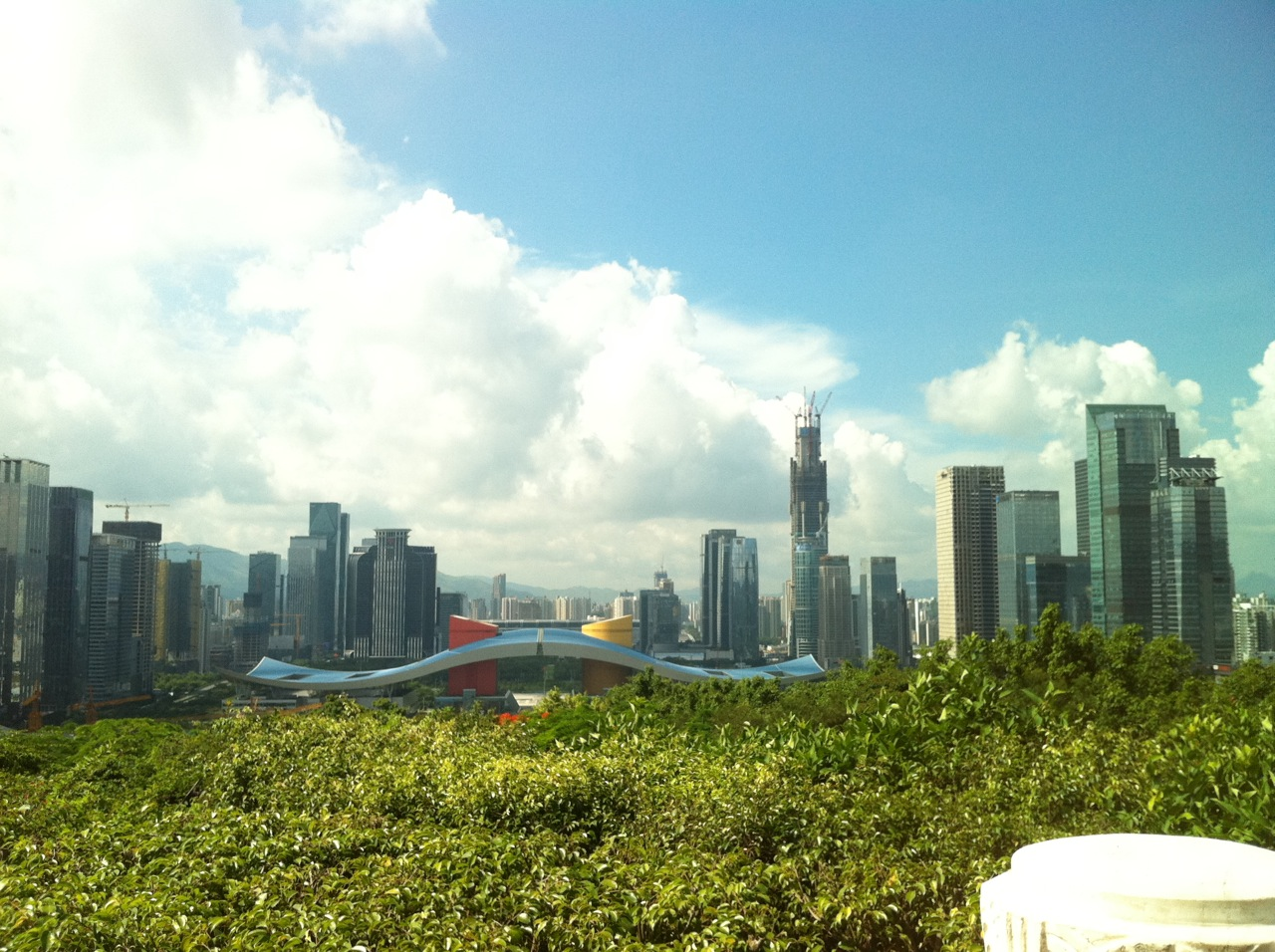 Shenzhen Civic Center